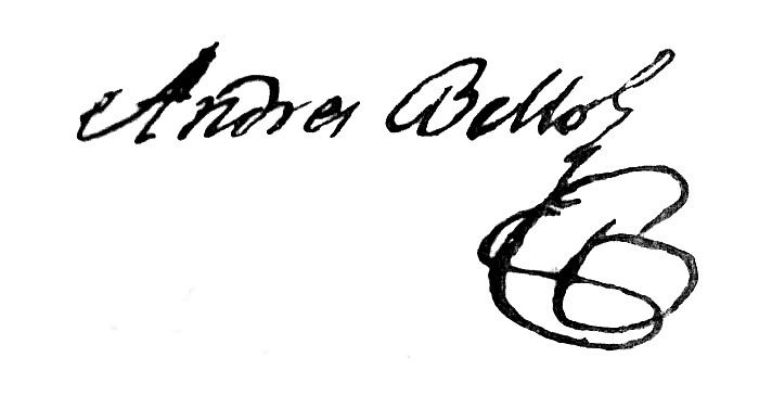 Signature of Andrés Bello, photographed by Guillermo Ramos Flamerich, from the Archives of Manuel Landaeta Rosales, National Academy of History, Caracas, Venezuela.